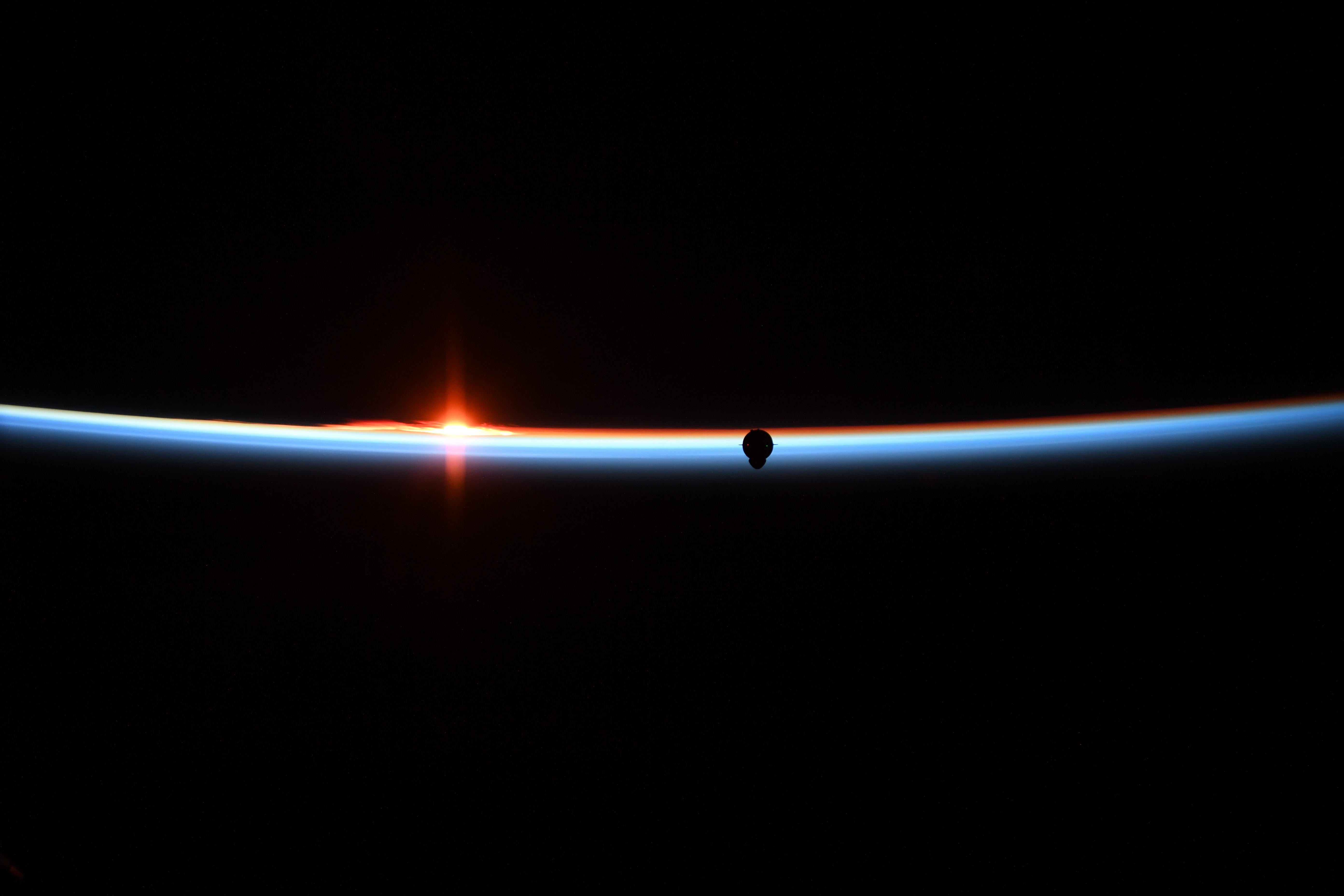 "The dawn of a new era in human spaceflight," NASA astronaut Anne McClain tweeted with this image. She captured this shot as the SpaceX Crew Dragon capsule approached the International Space Station to dock for the first time